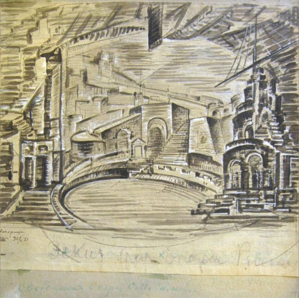 G. Yakulov. Set design for the opera “Rienzi” Zimin Opera. Moscow. 1923 The sketch is located in the Bakhrushin Museum in Moscow, Russia.